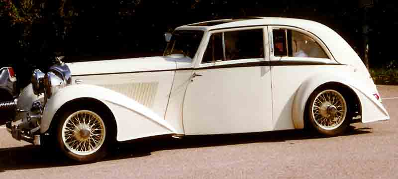 Bentley 3½-Litre Airline Saloon 1934